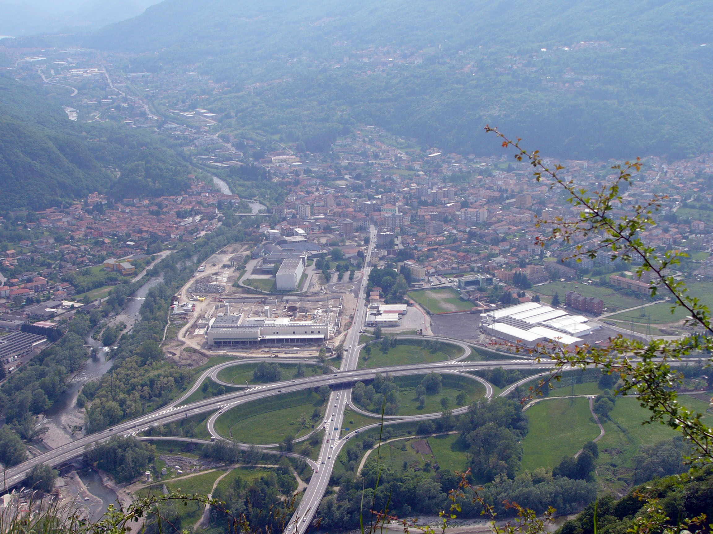 Panoramic View of Gravellona Toce - Italy taken from the summit of Mont’Orfano User:Moroboshi took this picture the 15 may 2005 In the foreground a cloverleaf junction links the A26 Autostrada dei Trafori (left-to-right) to the national roads SS34 del Lago Maggiore (towards the camera) and the SR229 (shortly to become the SS229 del Lago d'Orta) (away from the camera). The stream on the left of the picture is the Strona which flows towards us from Lago d’Orta and joins the Toce (visible at the bottom of the image, flowing right-to-left towards Lago Maggiore) just out of shot.